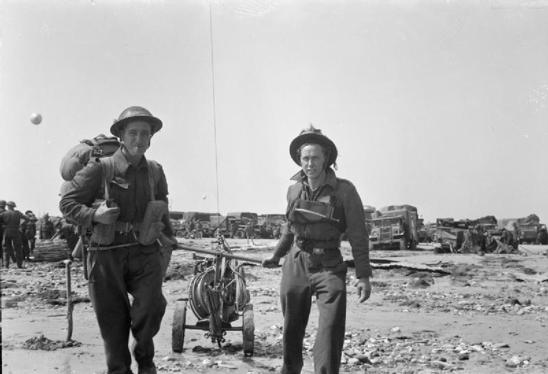 Royal Air Force- 2nd Tactical Air Force, 1943-1945. Operation NEPTUNE: the air and naval assault phase of OVERLORD. Balloon operators, Leading Aircraftman E Platts of Sheffield (left) and Leading Aircraftman E Armitage of Leeds, pull a balloon winch over 'King' Beach, GOLD Sector, on the afternoon of 'D-Day'.